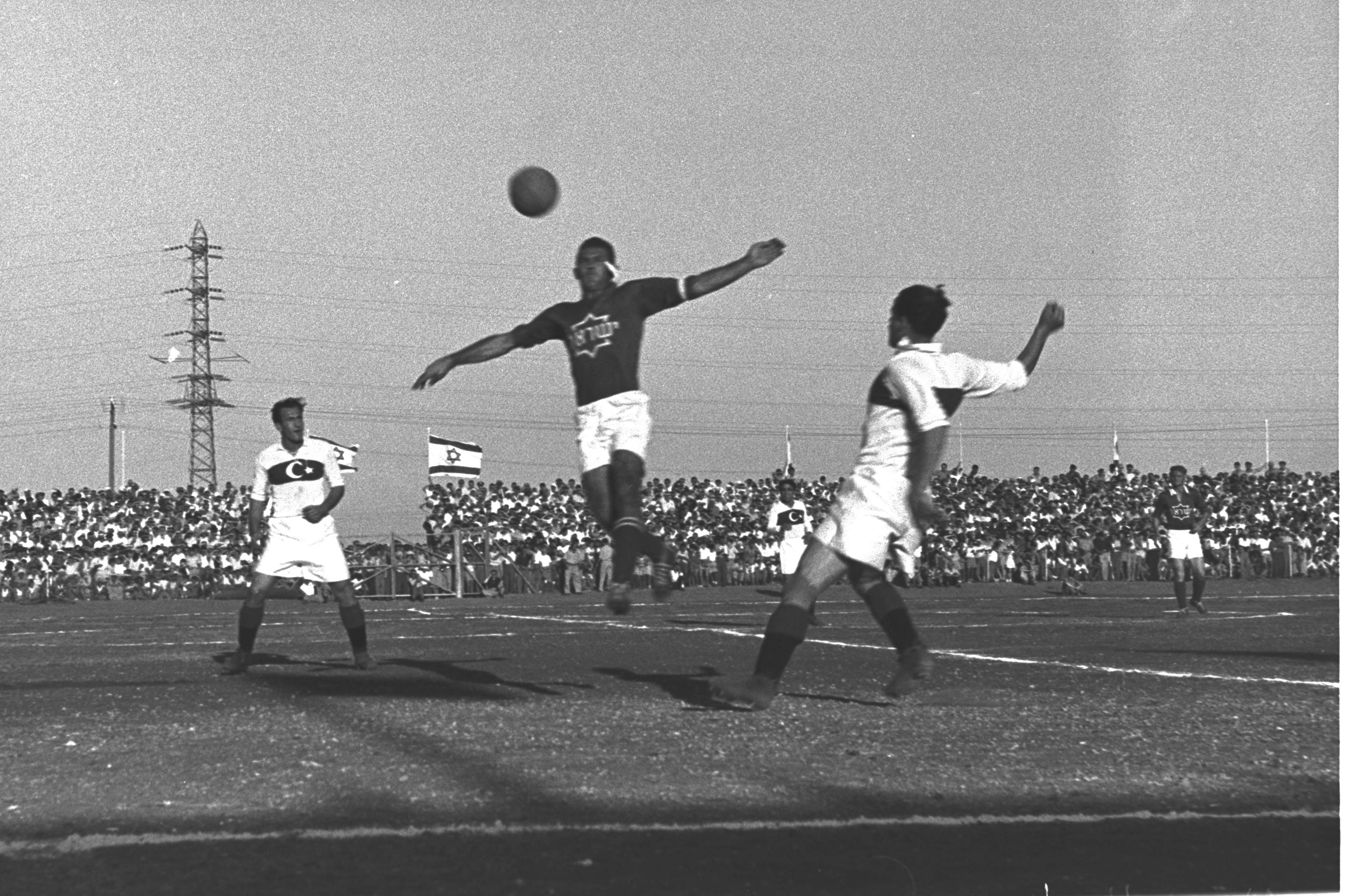 Friendly match Israel playing against Turkey at the Ramat Gan stadium.